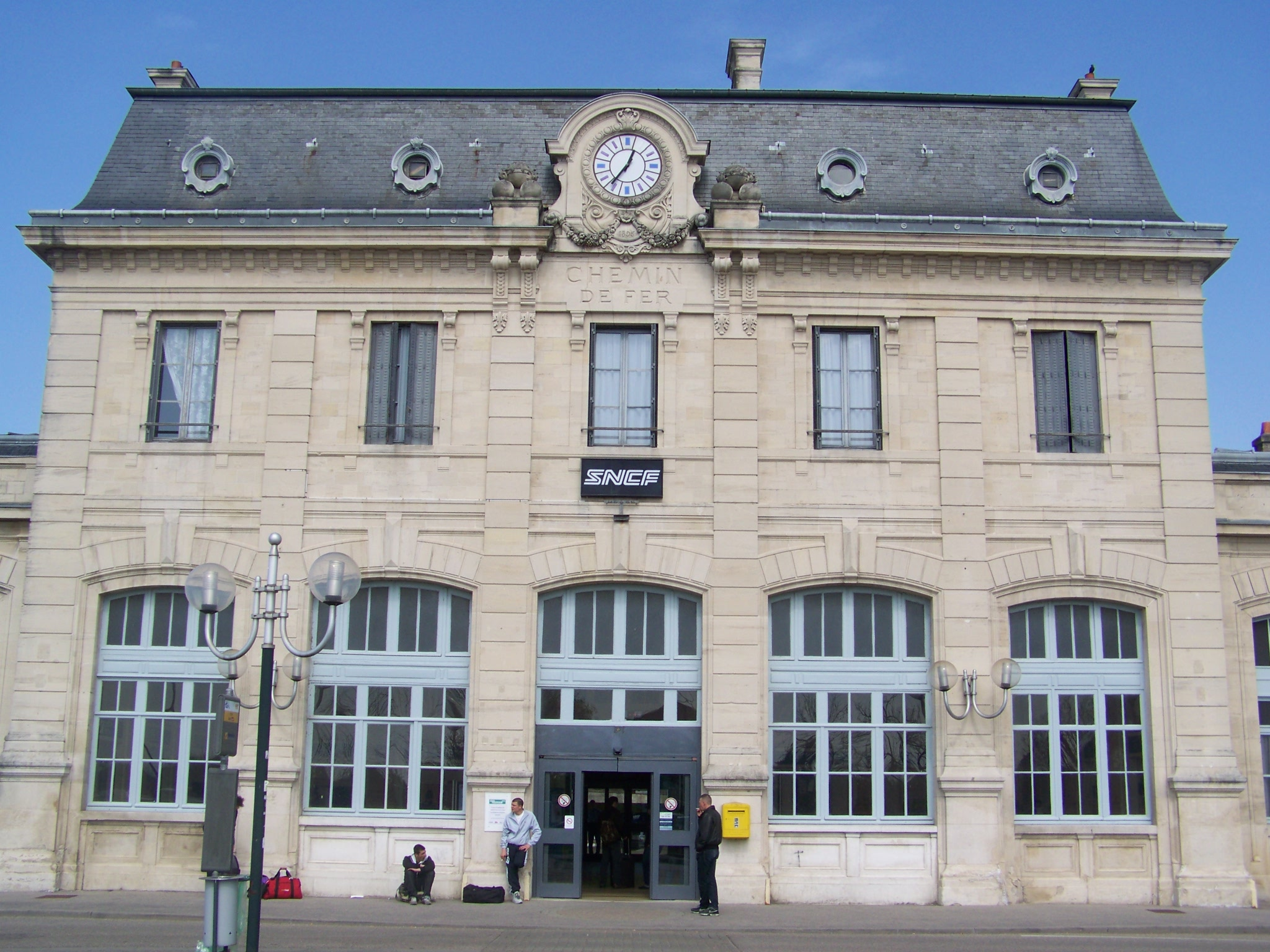 Front of the city of Toul station, in Meurthe-et-Moselle, France.